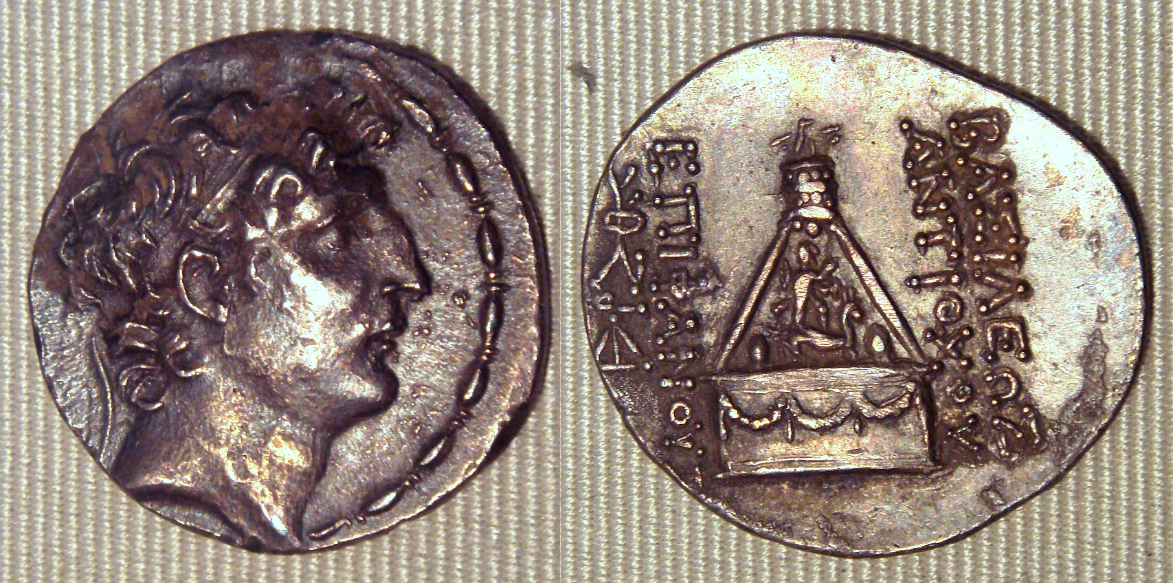 Silver tetradrachm of Tarsus under the reign of Antiochos VIII Grypos; obverse: portrait of the king; reverse: the god Sandan standing on the horned lion, in his pyre surmounted by an eagle.